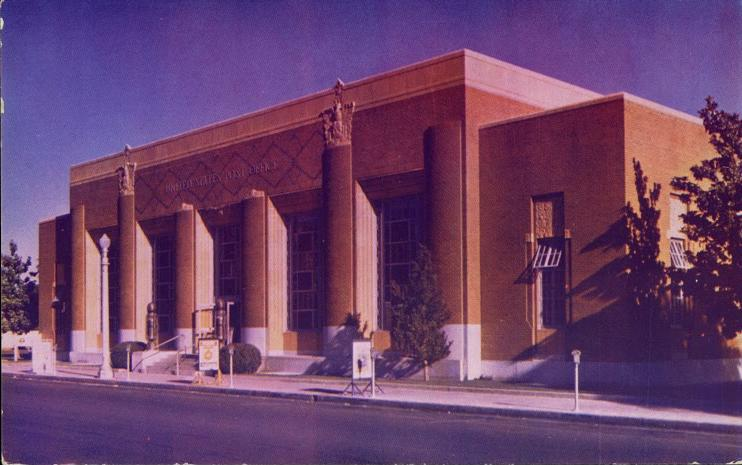 Historic color photograph of the United States Post Office Visalia Town Center Station, in Downtown Visalia, circa 1960. A 1933 Art Deco Moderne style building by the Works Progress Administration in California, on the National Register of Historic Places in Tulare County. View of north-west facade of building, across Acequia Avenue.